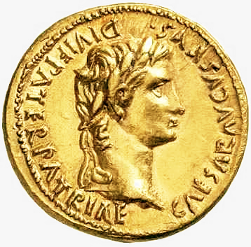 Augustus AV Aureus. Rome mint, 13-14 AD. Obv: CAESAR AVGVSTVS DIVI F PATER PATRIAE, laureate head right Rev: AVG F TR POT XV, TI CAESAR. RIC 221, BMC 511, BN 1685, C 299